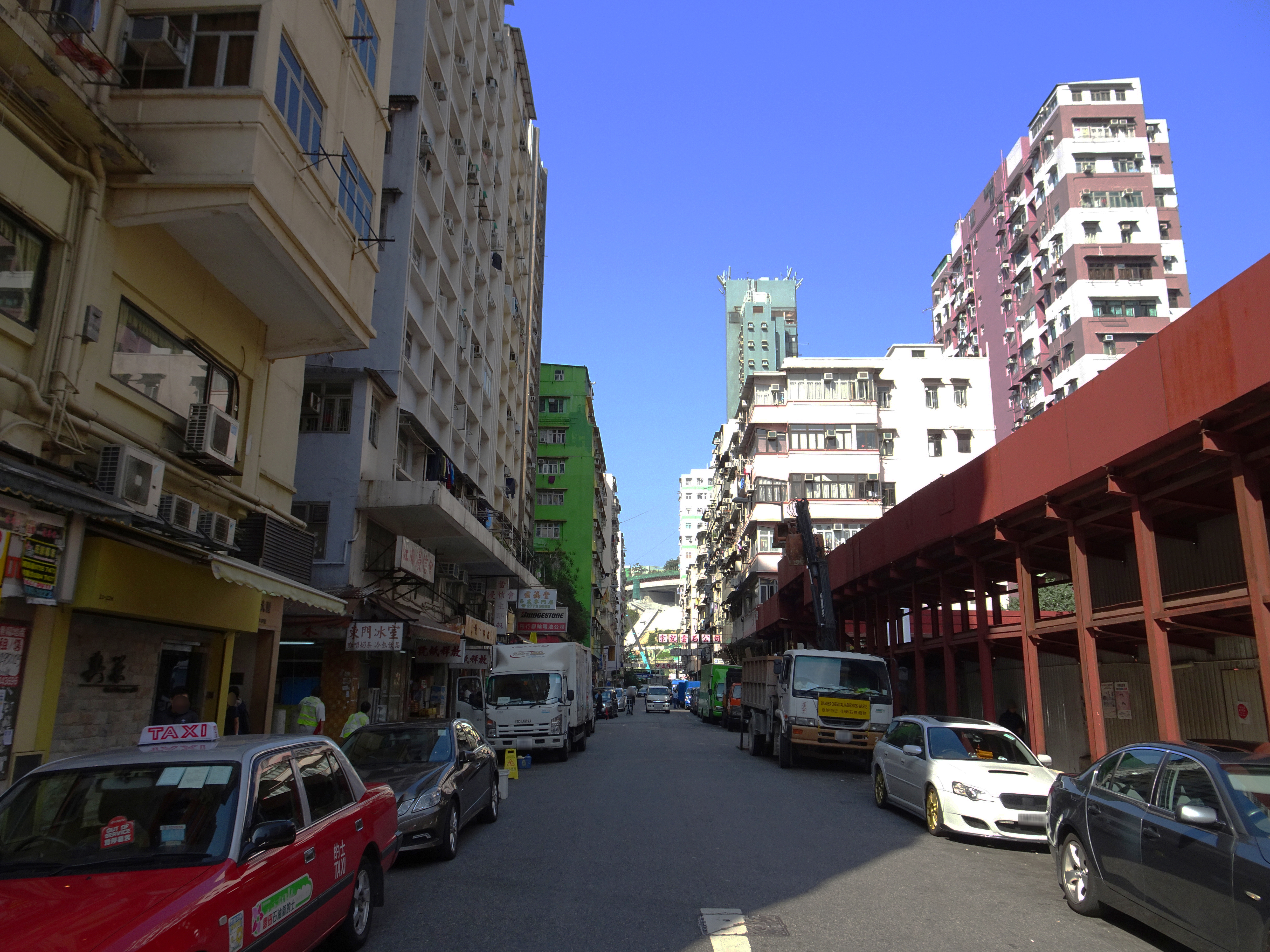 Cooke Street in Hung Hom, Hong Kong.